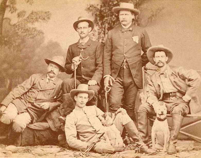 Members of The Tibagy Dredging Company, Corityba 1885. Standing to the left the Swedish engineer Sven Edvard Allgurén (1847-1897).